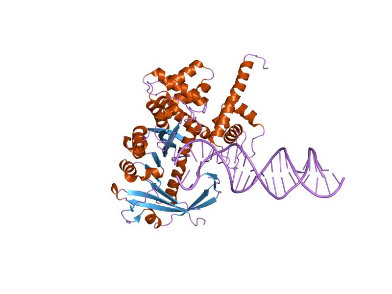 Cartoon representation of the molecular structure of protein registered with 1mur code.